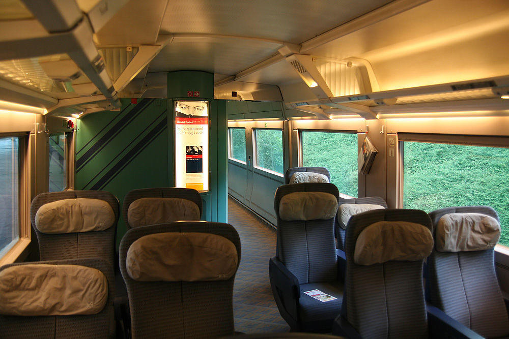 Old interior design of a 2nd class row-seat section of an ICE 1 (car #9, service car). In the process of a refurbishment of the fleet, these design will disappear until late 2008.